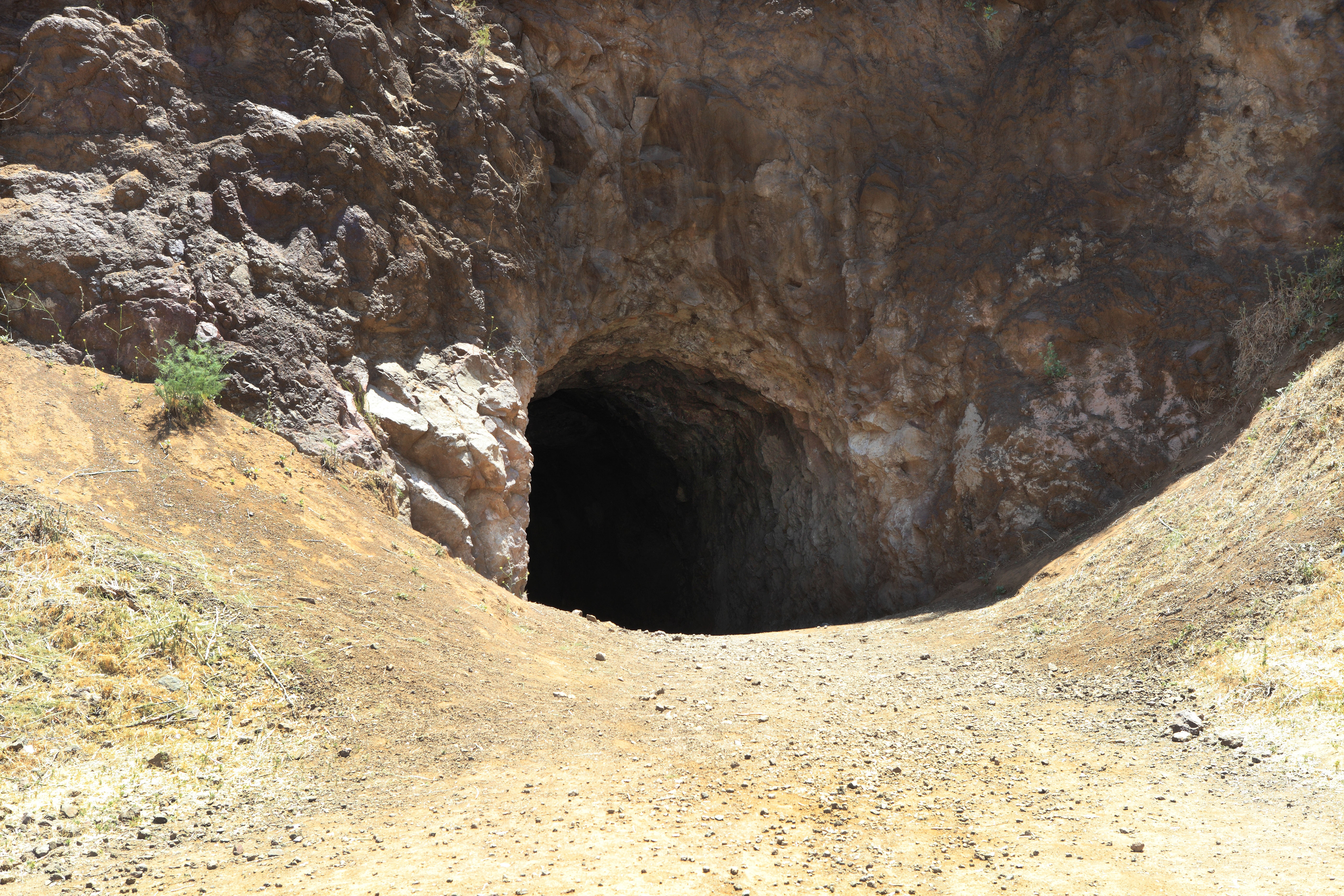 The "Batcave" at Bronson Cave in Los Angeles. This film location served as the iconic secret lair for the 1960s "Batman" television show.